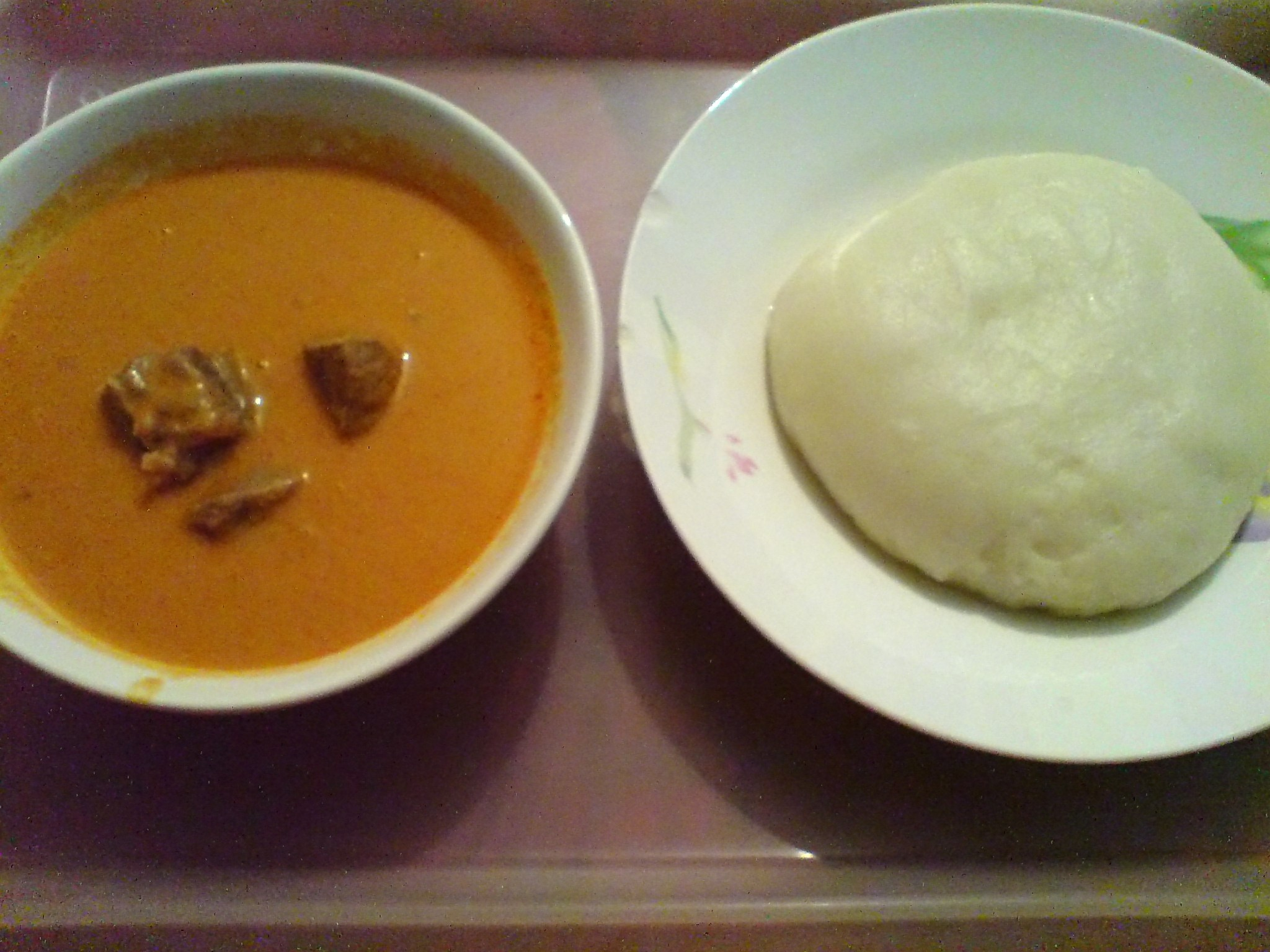 Photograph of a plate of fufu made from mashed potato & farina, and a bowl of peanut soup made by my mum ;)